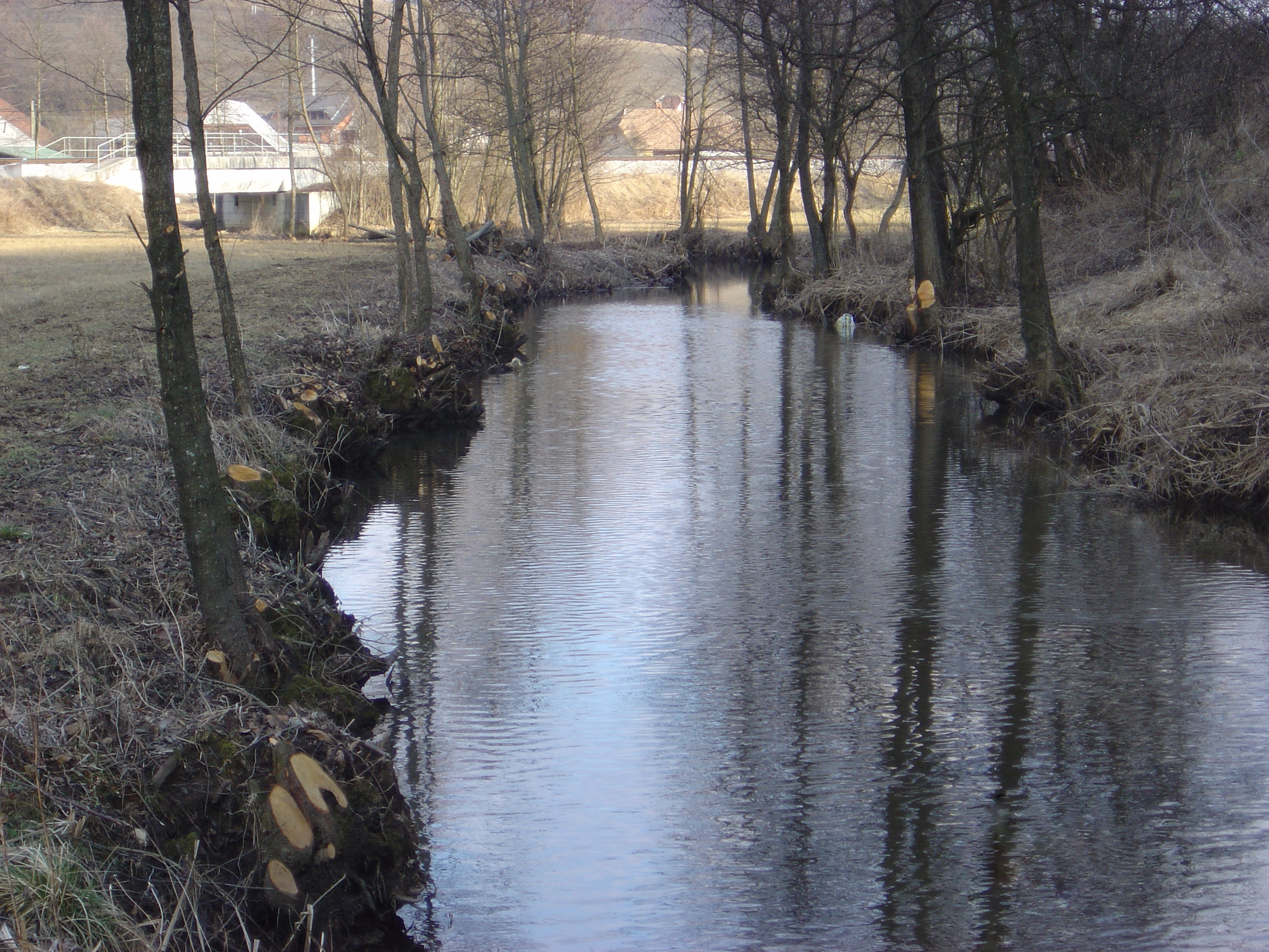 Maintained banks of the river Temenica near Velika Loka, Slovenia, 2004